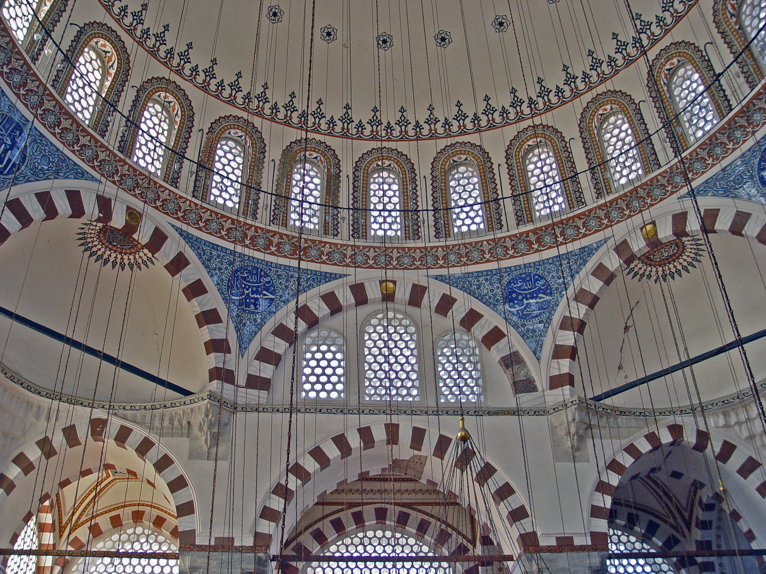 A visit to the mosque confronts a viewer with a huge amount of specimens of Iznik tiles from the best period. The mosque was being restored in the later 2010's and may remain closed for some time.